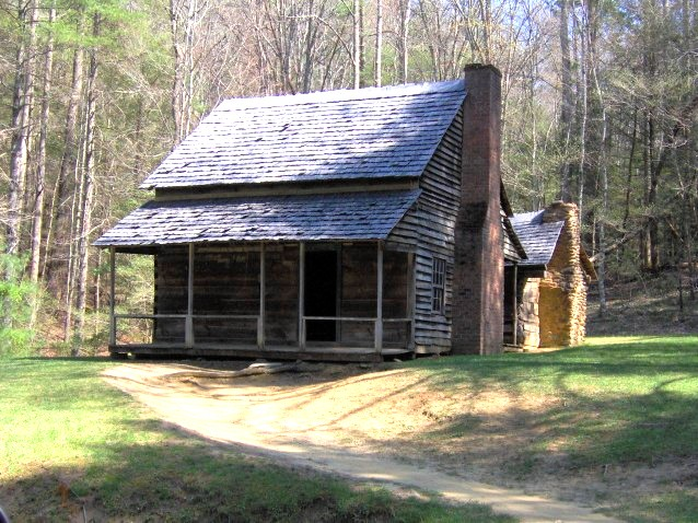 The Henry Whitehead Cabin along Forge Creek Road in Cades Cove, GSMNP, in East Tennessee. The cabin was built around 1896 by Whitehead for his wife, Matilda "Aunt Tildy" Shields. Shields' sons from her first marriage were prominent in the cove's moonshine trade.